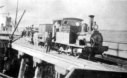 H-Class locomotive 22 on the Jetty at Port Hedland